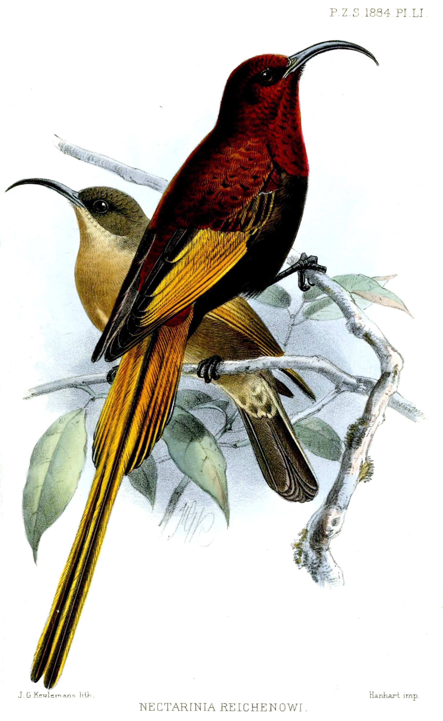 Nectarinia reichenowi